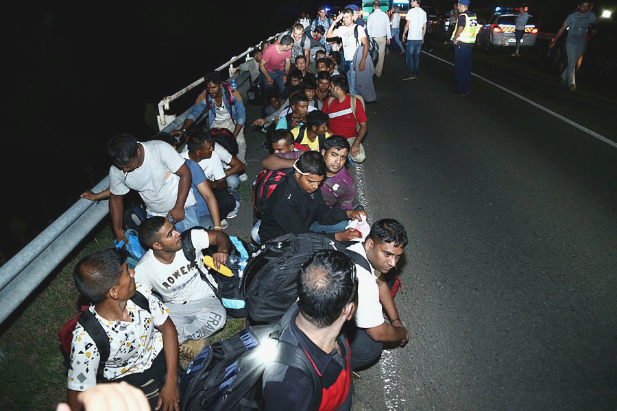 Migrants in Hungary near the Serbian border